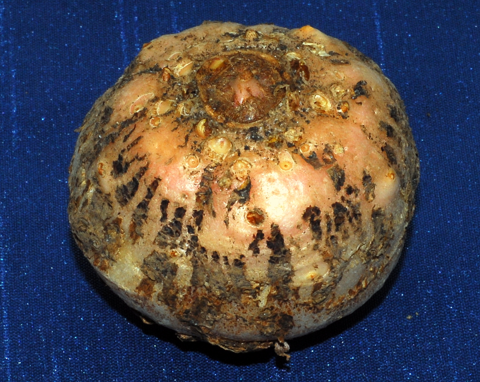 Tuber of Synandrospadix vermitoxicus